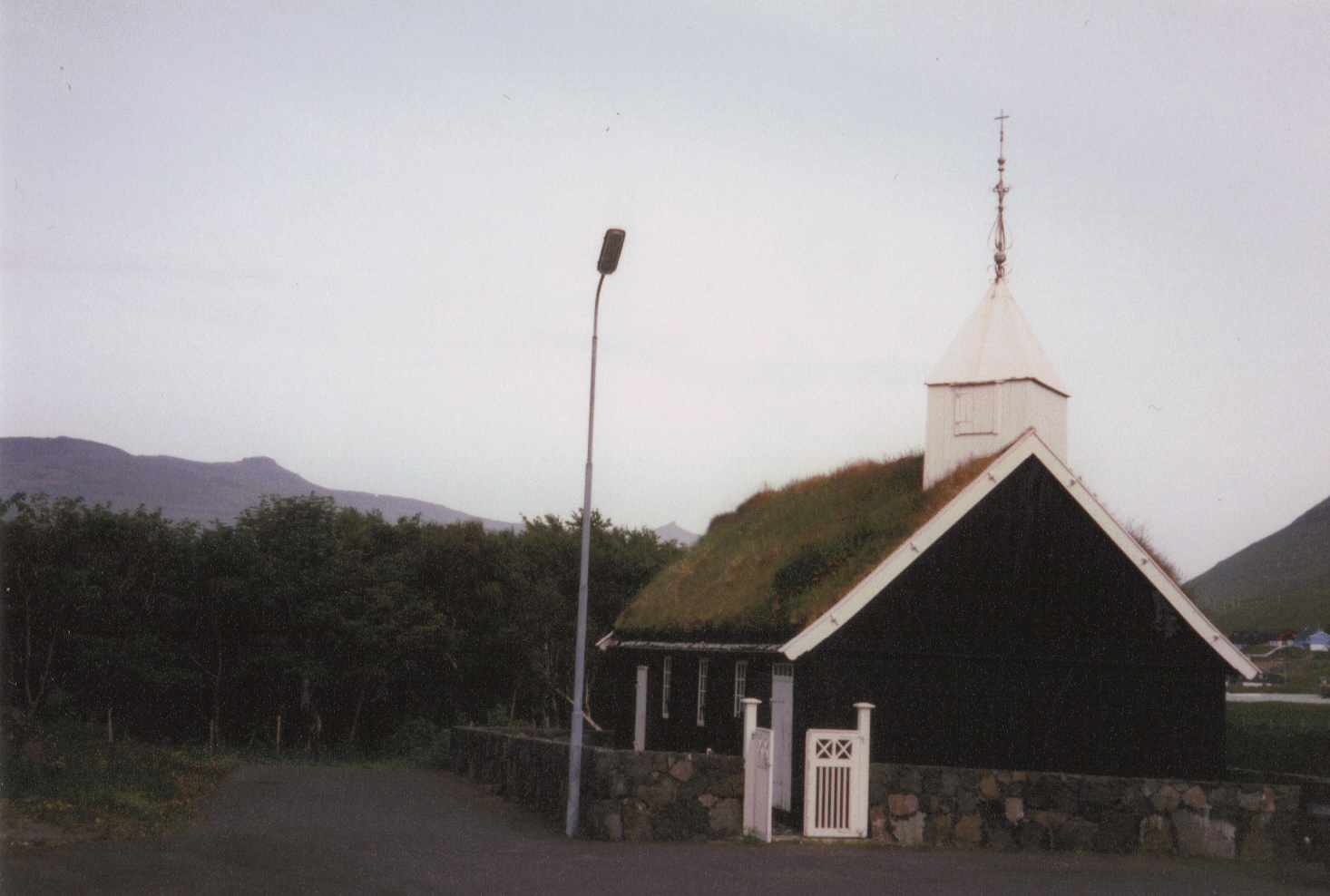 Church and Forest in Hvalvík, Faeroerne